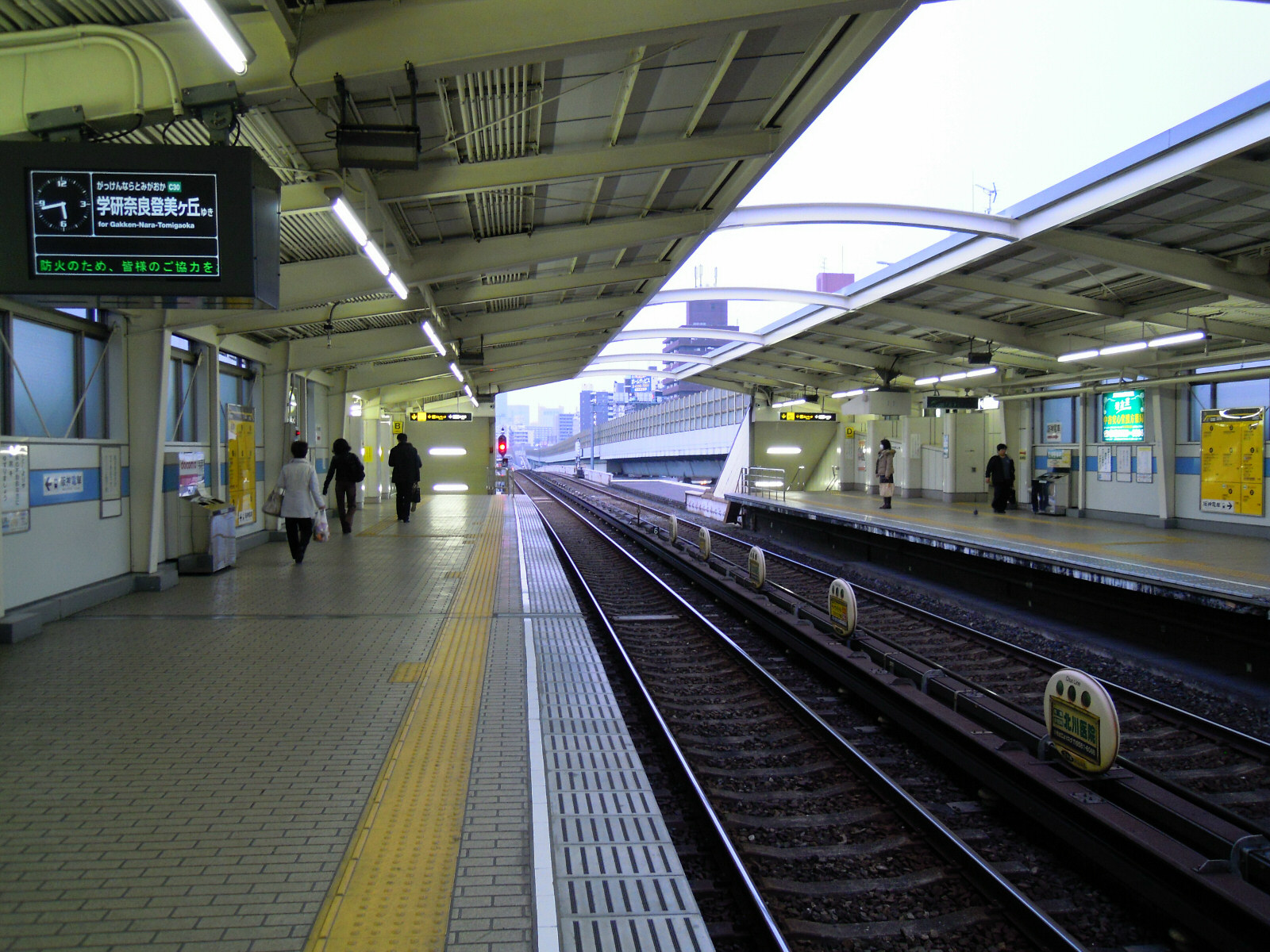 Chuo-line Kujo station platform